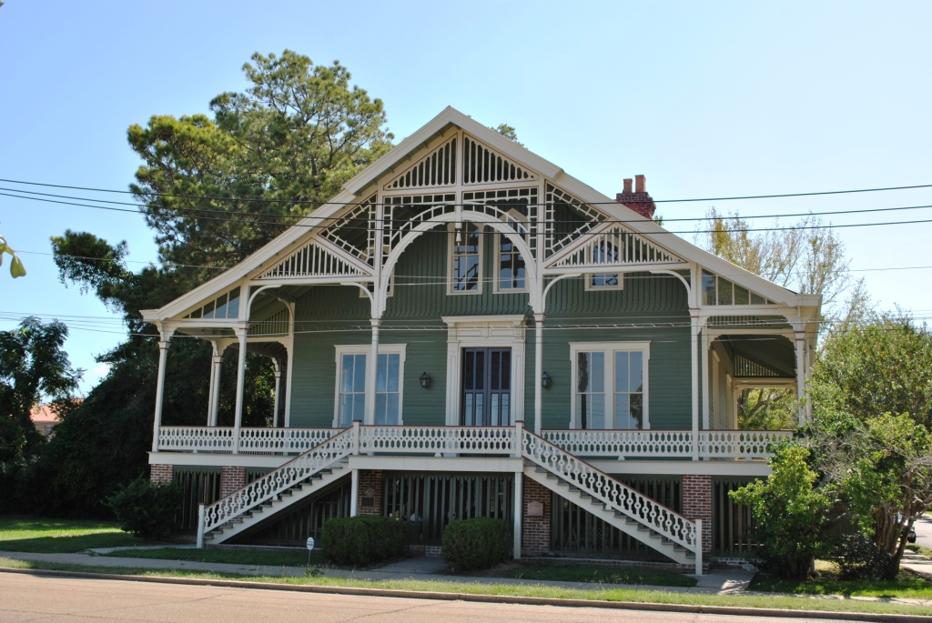 Natchez Bluffs and Under-the-Hill Historic District